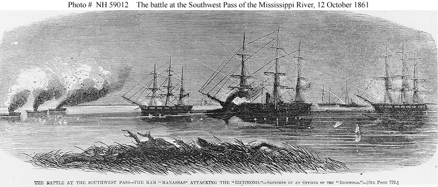 Confederate ironclad ram CSS Manassas attacks the USS Richmond in the Battle of the Head of the Passes, 12 October 1861.